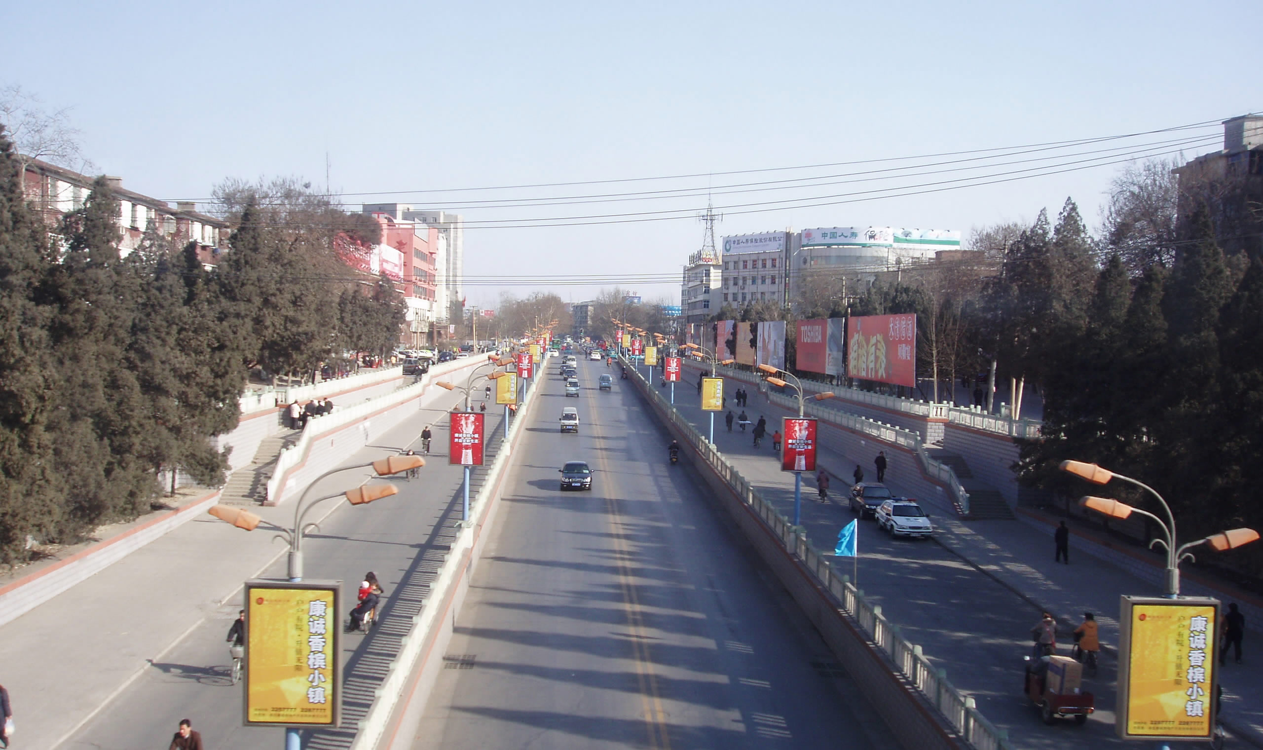 Baoding City, Hebei Province, China